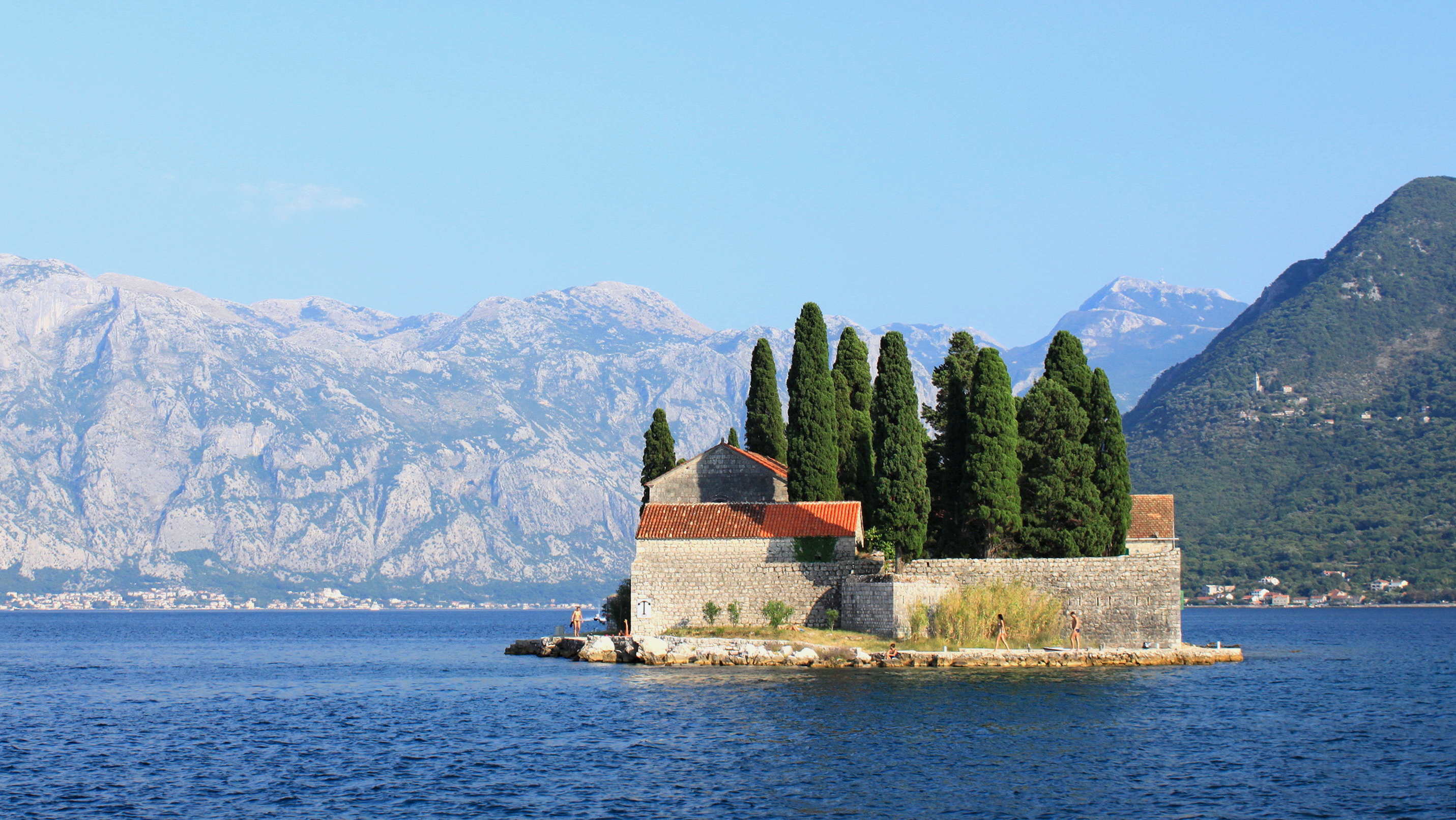 Sveti Đorđe - view from the Gospa od Škrpjela (Our Lady of the Rocks islet). Perast, Montenegro.